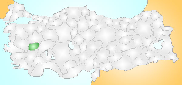 Shows the location of the Uşak Province in Turkey. Created by Florenco 09:41, 6 April 2005 for This file is licensed under Creative Commons ShareAlike 1.0 License. Creative Commons ShareAlike 1.0 GenericCC SA 1.0